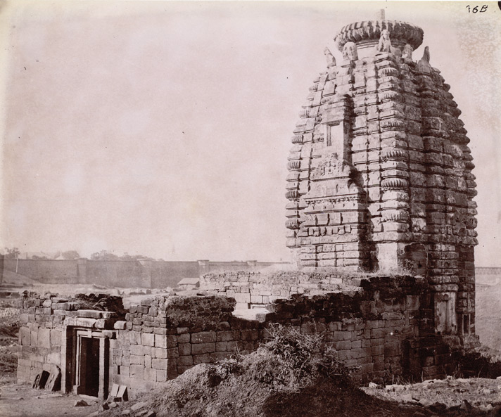 Photo of temple no.5 (Siddheshvara Temple) at Barakar, Burdwan district taken by J.D.Beglar in 1872-73. Beglar wrote, "Barakar…contains several very interesting ancient remains, in excellent preservation". Temple number 5, "...consists of a cell and an antarala, or vestibule. It does not appear to have ever had a mahamandapa in front. The object of worship is a lingam, placed in a great argha, 4 feet 7 inches in diameter. Besides this there are lying, in and out, statues and fragments, among which may be reckoned, Ganeca, a 4-armed female, a 4-armed male holding a sword and a trident in two hands, and some nondescript fragments." J.D. Beglar, Report of a tour through the Bengal Provinces...in 1872-73 (A.S.I. vol. VIII, Calcutta, 1878), p. 151-3 The temple was built in the ninth century however the adjacent mandapa is a modern addition.